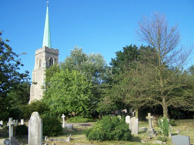 Churchyard, St. Margaret, Lowestoft